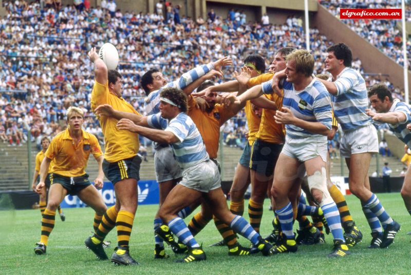 Scerne of the test played by Argentina v. Australia at Velez Sarsfield stadium. Argentina won 27-19.